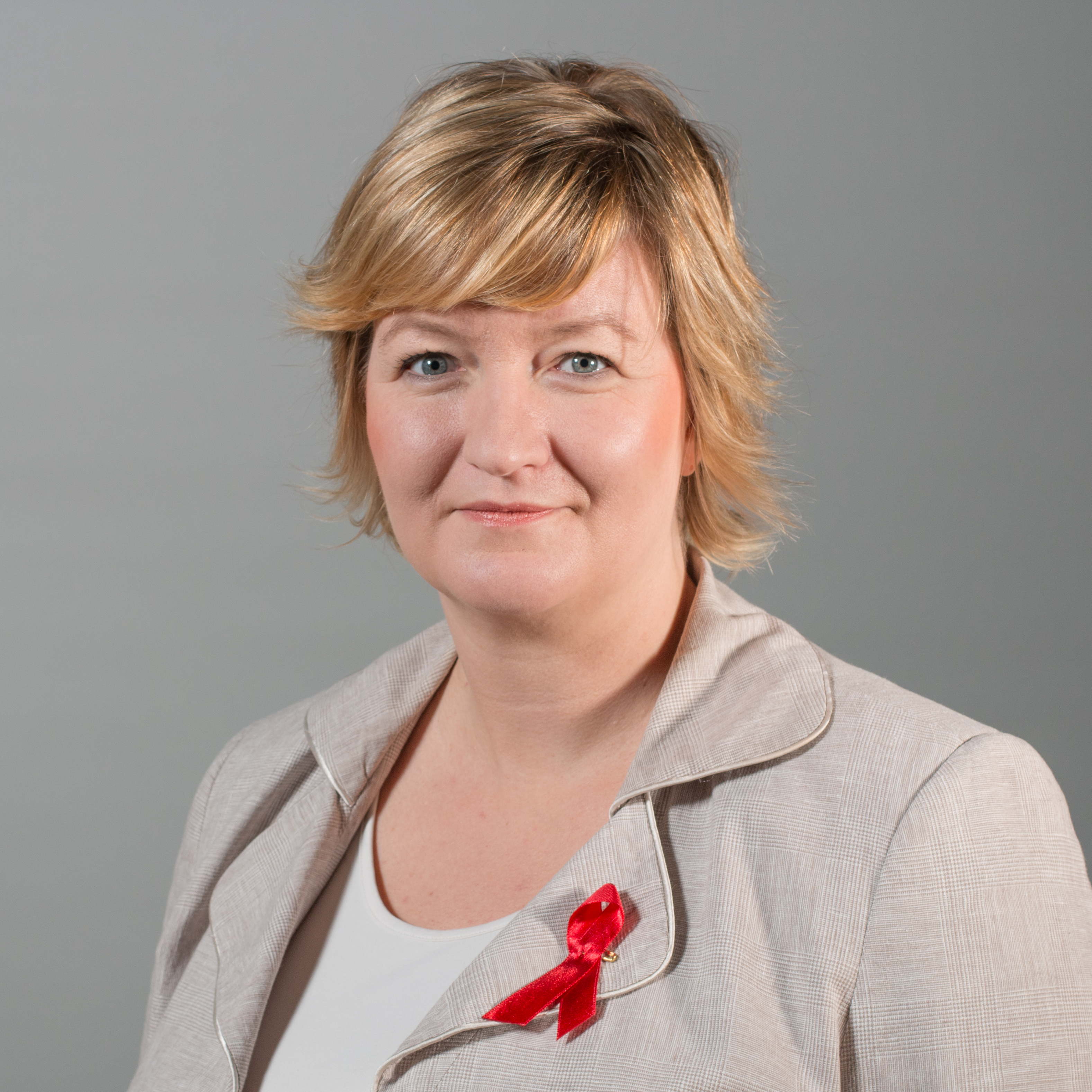 Dagmar Hanses, North Rhine-Westphalian Green Party-politician and member of the Landtag of North Rhine-Westphalia